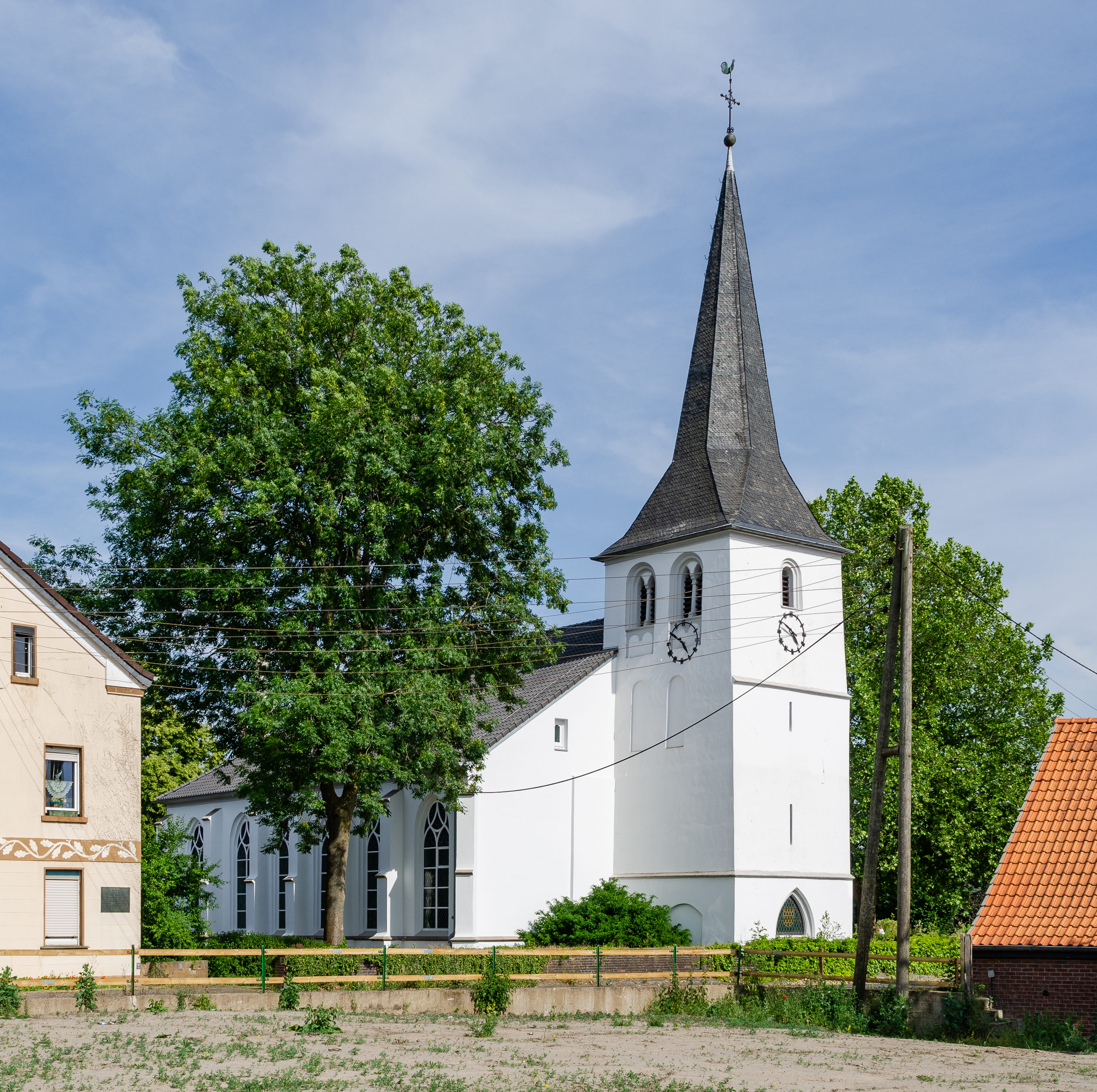 Voerde (North Rhine-Westphalia, Germany) – district Götterswickerhamm – Protestant Church